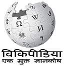 Logo of the हिन्दी Wikipedia